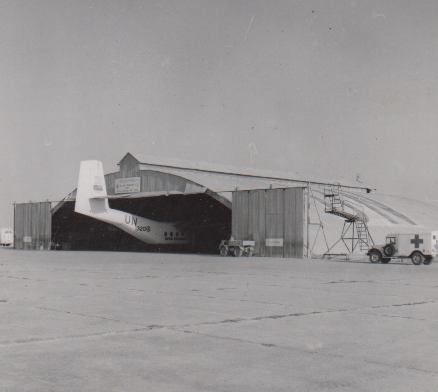 UNEF hangar at El Arish, Egypt